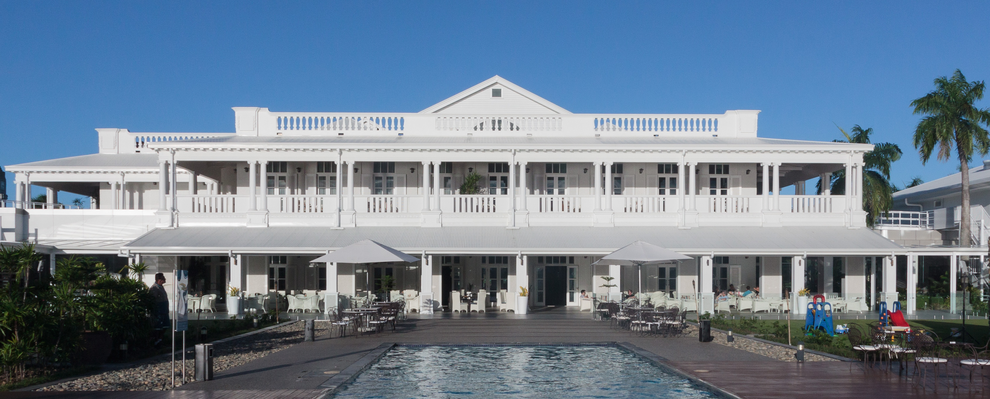 The Grand Pacific Hotel (Suva)